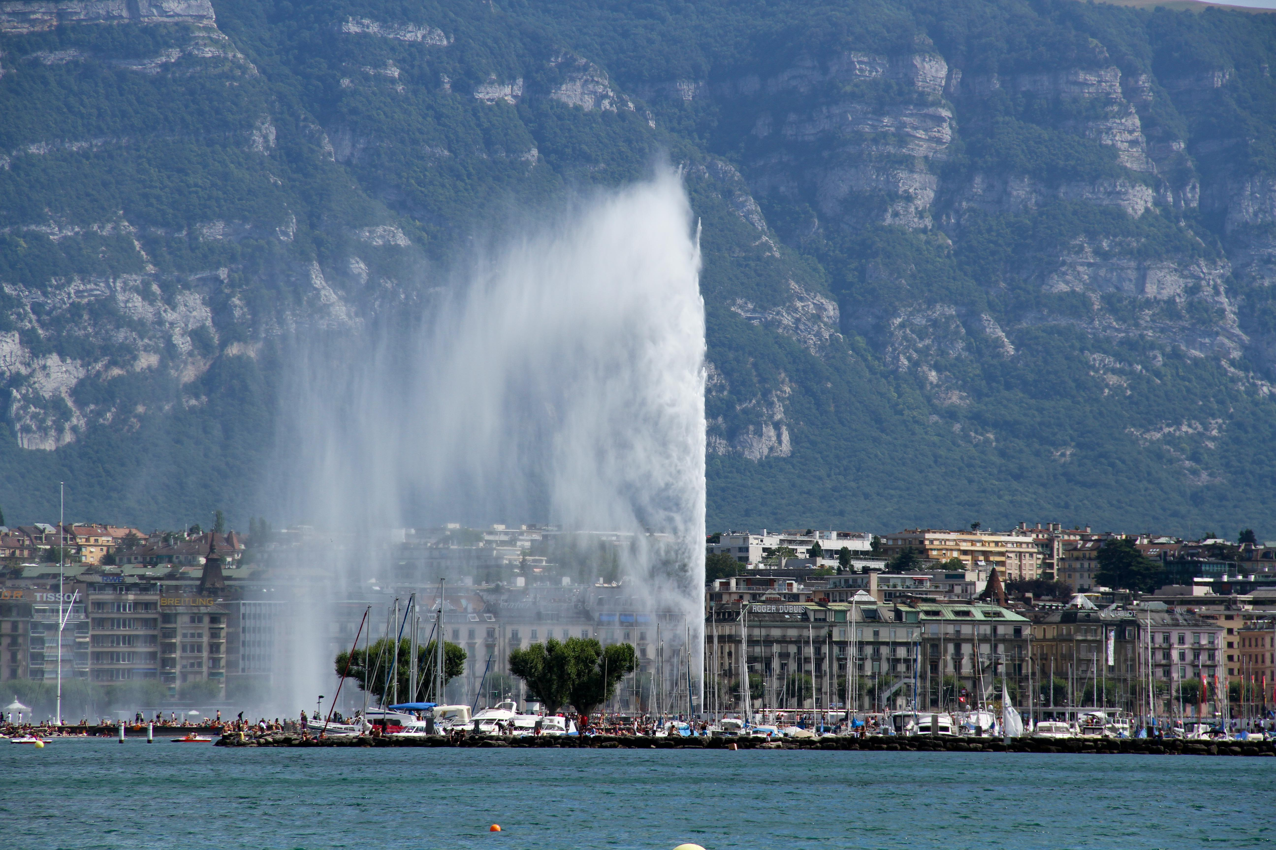 The fountain of geneva